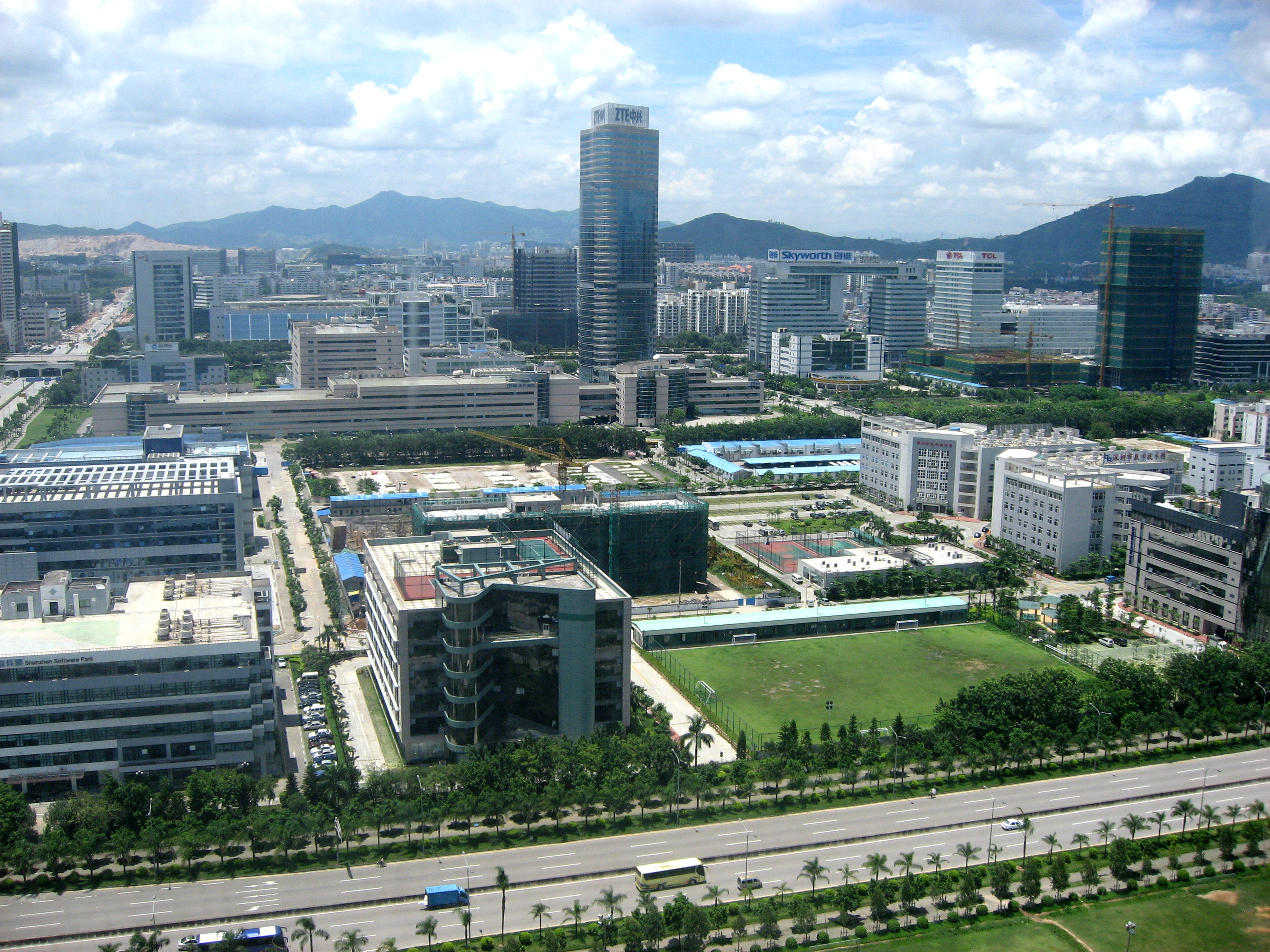 Company ZTE in the Shenzhen High-Tech Industrial Park